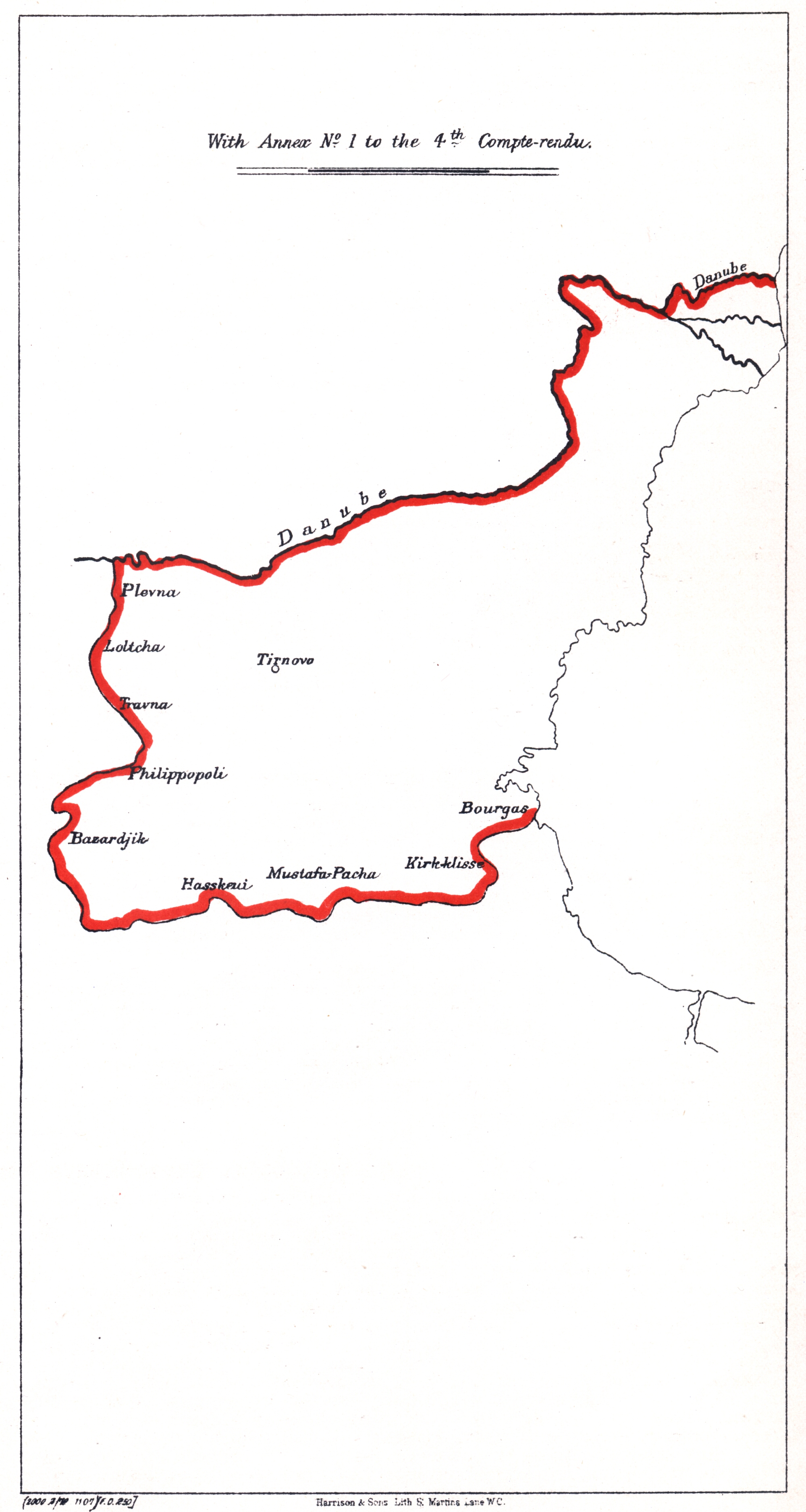 Map of the Eastern Bulgarian Autonomous province, proposed by the Constantinople Conference (1876)